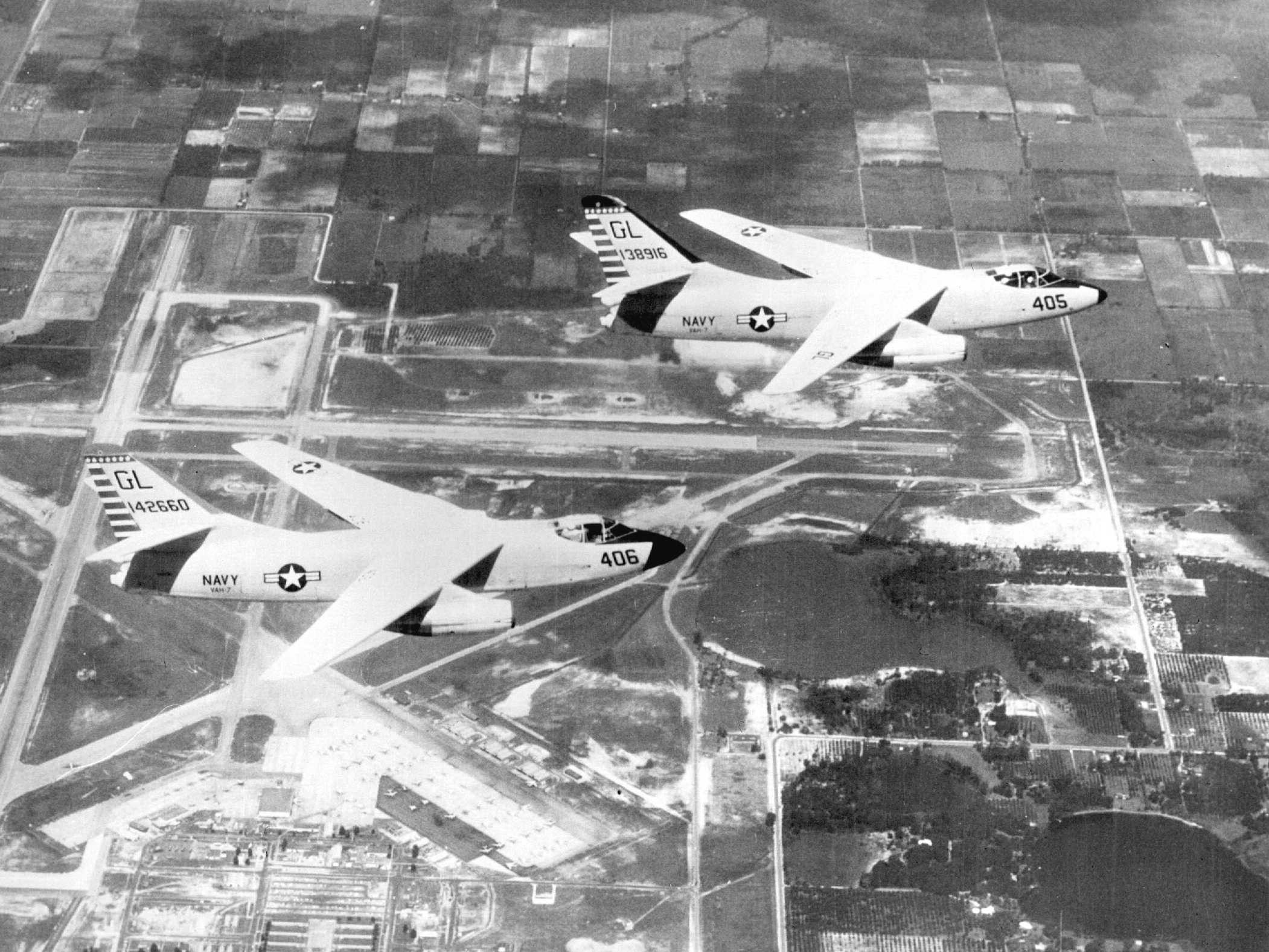 Two U.S. Navy Douglas A3D-2 Skywarrior (BuNo 138916, 142660) of Heavy Attack Squadron 7 (VAH-7) in flight over Naval Air Station Sanford, Florida (USA). This was part of Bombing Derby of Heavy Attack Wing 1 (HATWING-1). Note the missing tail guns.